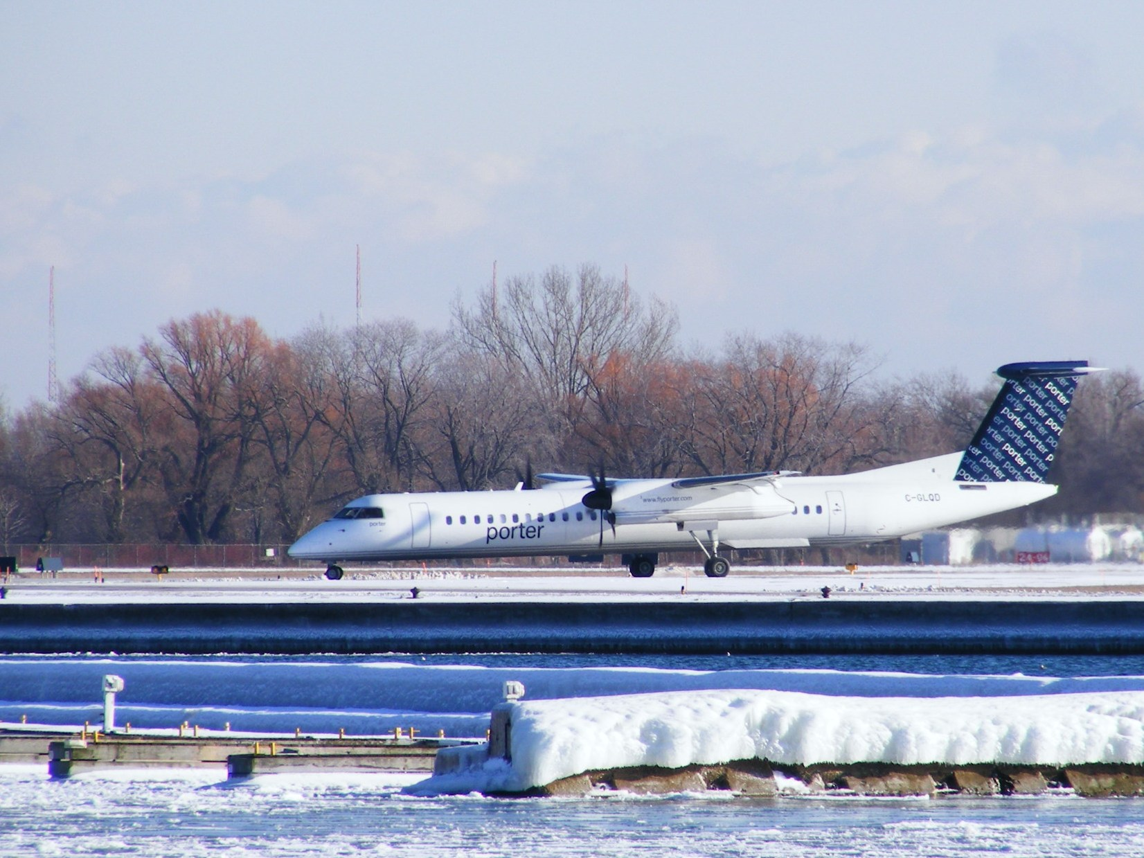 The following is the author's description of the photograph quoted directly from the photograph's Flickr page."Porter Airlines "